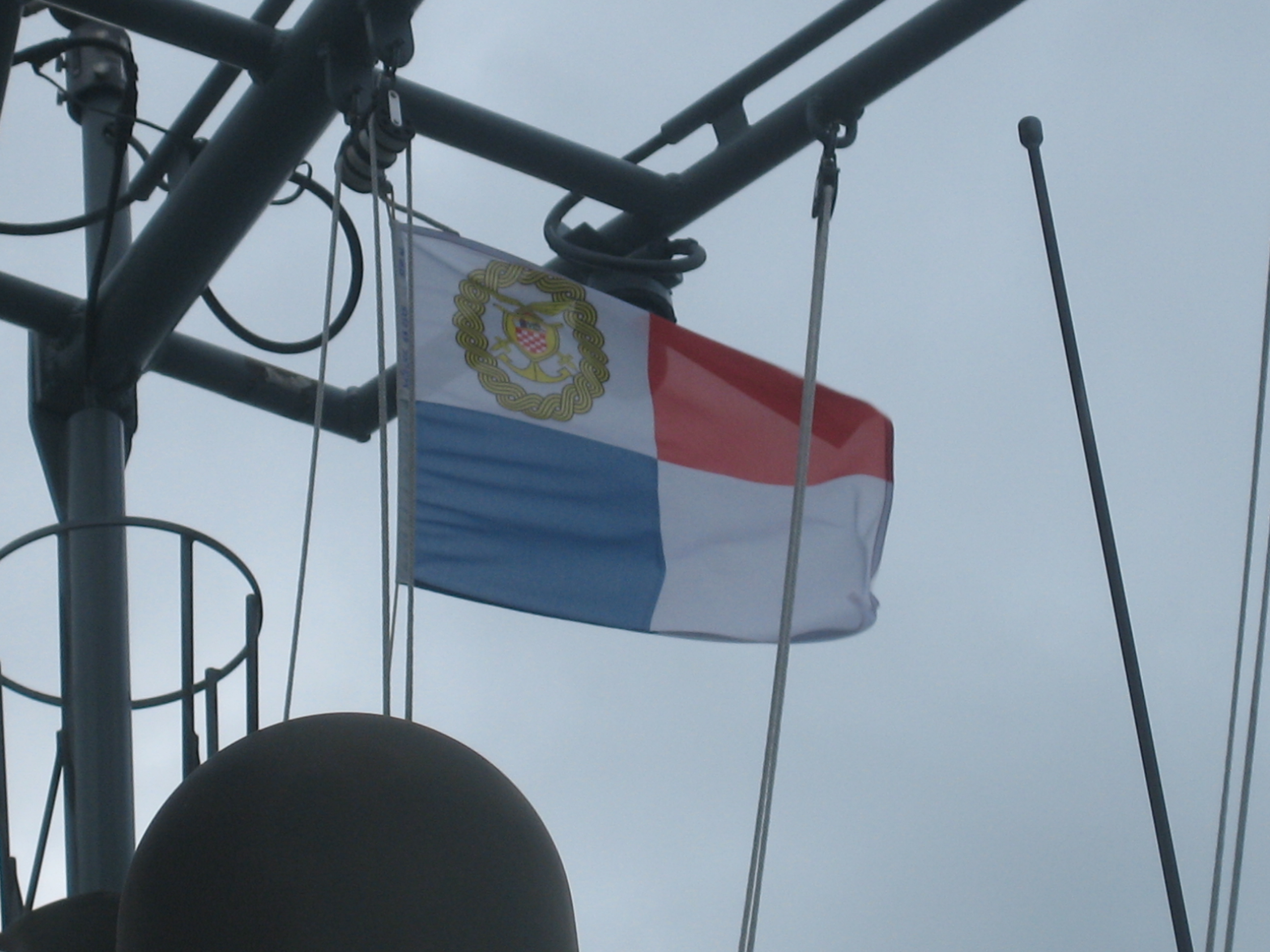 Flag on the RTOP-41 Vukovar